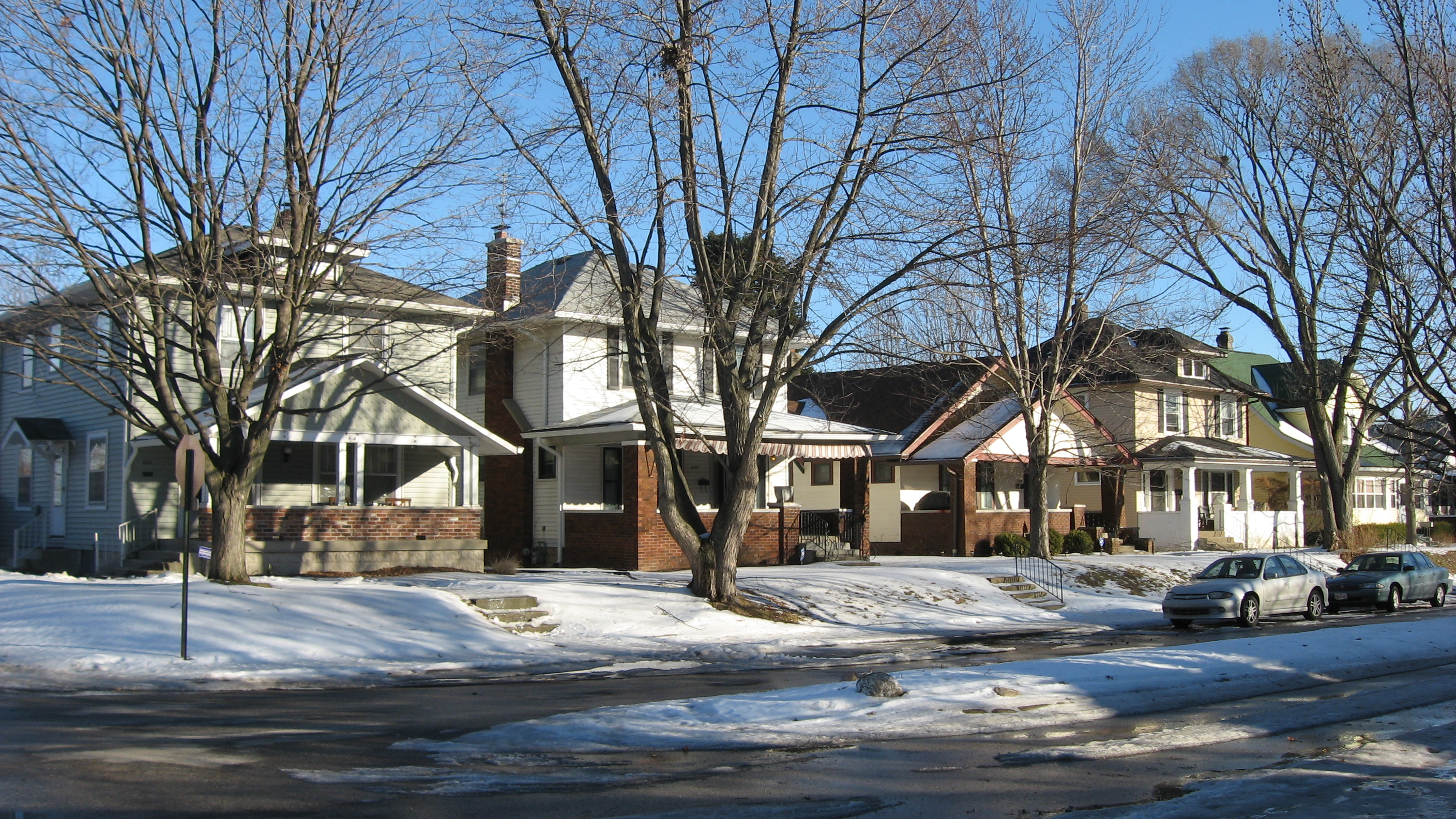 Houses on the eastern side of the 500 block of N. Bancroft Street in Indianapolis, Indiana, United States. This block is part of the Emerson Heights Historic District, a historic district that is listed on the National Register of Historic Places.